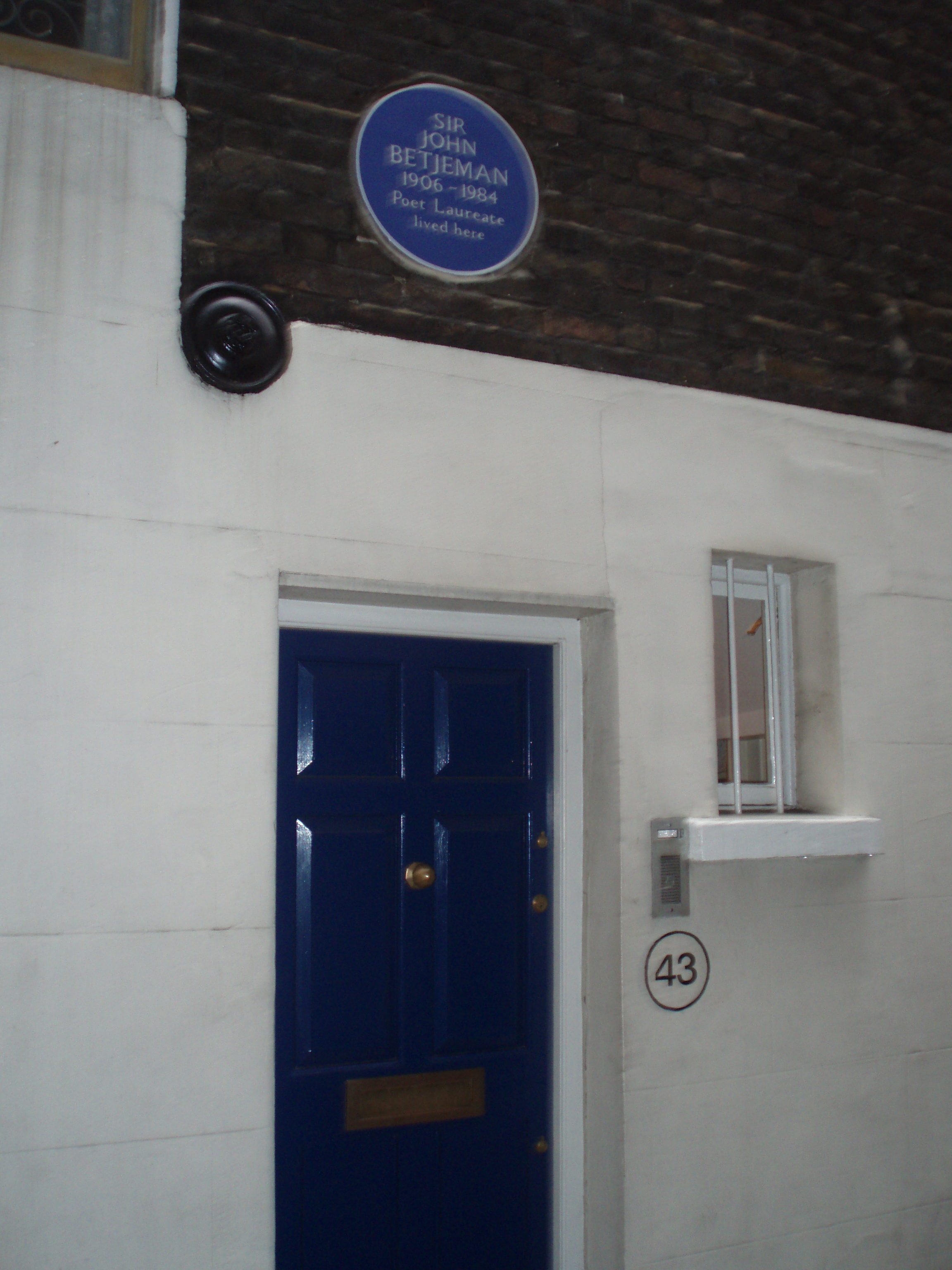 Photo taken 23rd August 2007